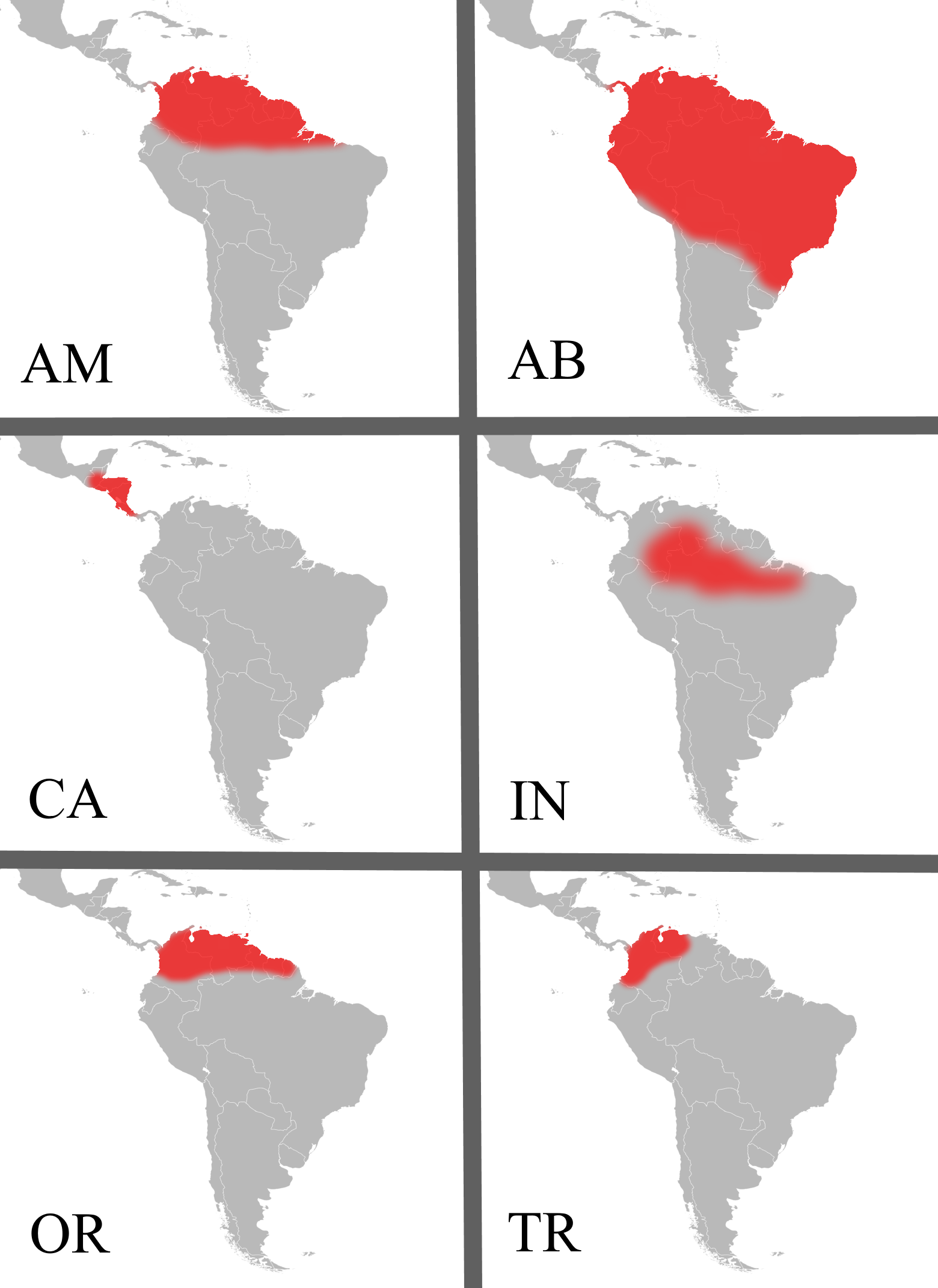 Distribution maps for Drosophila paulistorum semispecies. Based Dobzhansky & Spassky 1959, Dobzhansky et al. 1964 and Zanini et al. 2015. AM: Amazonian. AB: Andean-Brazilian. CA: Centroamerican. IN: Interior. OR: Orinocan. TR: Transitional.